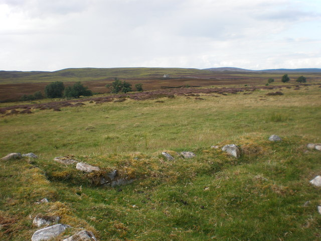 Knockdhu from remains of steading at Badnonan